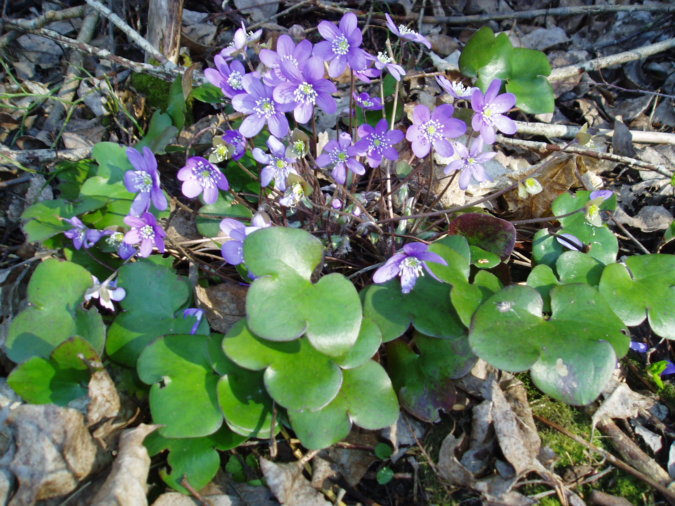 Hepatica